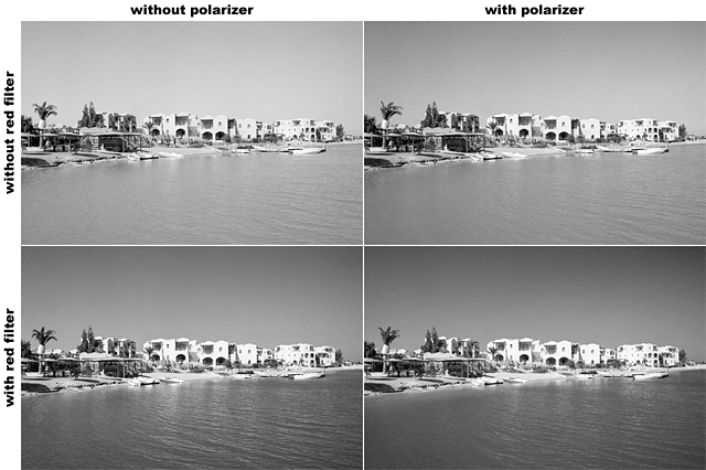 The effect of using polarizer and red filter in black-and-white photography. Photographs: Przemyslaw "Blueshade" Idzkiewicz. Both polarizer and red filter resulted in increased contrast between the sky and buildings. However, since the red filter used here was a relatively dense filter, it caused deeper darkening of sky than the polarizer. Additionally, it brightened the shade of the buildings which were flesh-colored, further increasing the contrast between them and the sky. On the other hand, the use of polarizer decreased the amount of reflections in water. The pictures used for this comparison depict one of bays in the town of El Gouna, located about 30 km north of Hurghada, Egypt. Pictures were taken in October, en:2004. I hereby release this image under cc-by-sa license. A larger version of this image is also available.